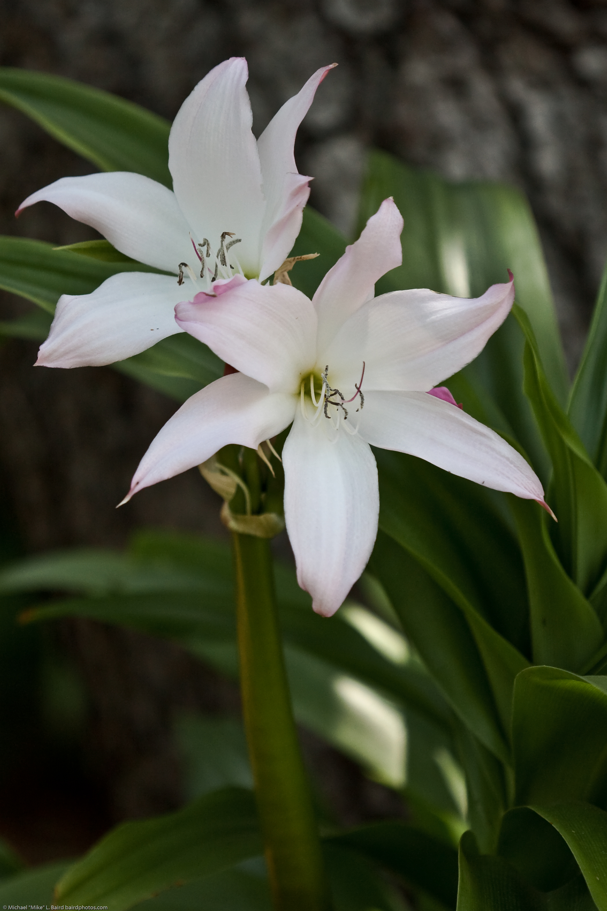 × Amarcrinum memoria-corsi Species: memoria-corsi; Genus: × Amarcrinum; Family: Amaryllidaceae; (from South Africa); Meaning: A hybrid combination of Amaryllis (sparkling) and Crinum (krinon, meaning lily) ([1] ) Photographed as part of the Digital Photo Walk led by Teddy Llovet and Pat Brown at the San Luis Obispo Botanical Garden slobg in El Chorro Regional Park - San Luis Obispo County, California. 28 May 2009 - Spring - (1 of 2 photos). Photo by Michael "Mike" L. Baird, mike at mikebaird d o t com, , Canon 1D Mark III, 180mm Macro lens, tripod.